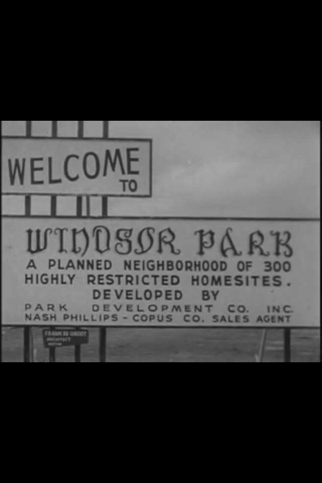 First year of Windsor Park's company doing homes.